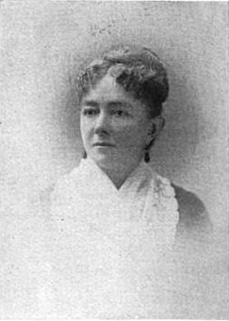 Mary Cruger (1834-1908)